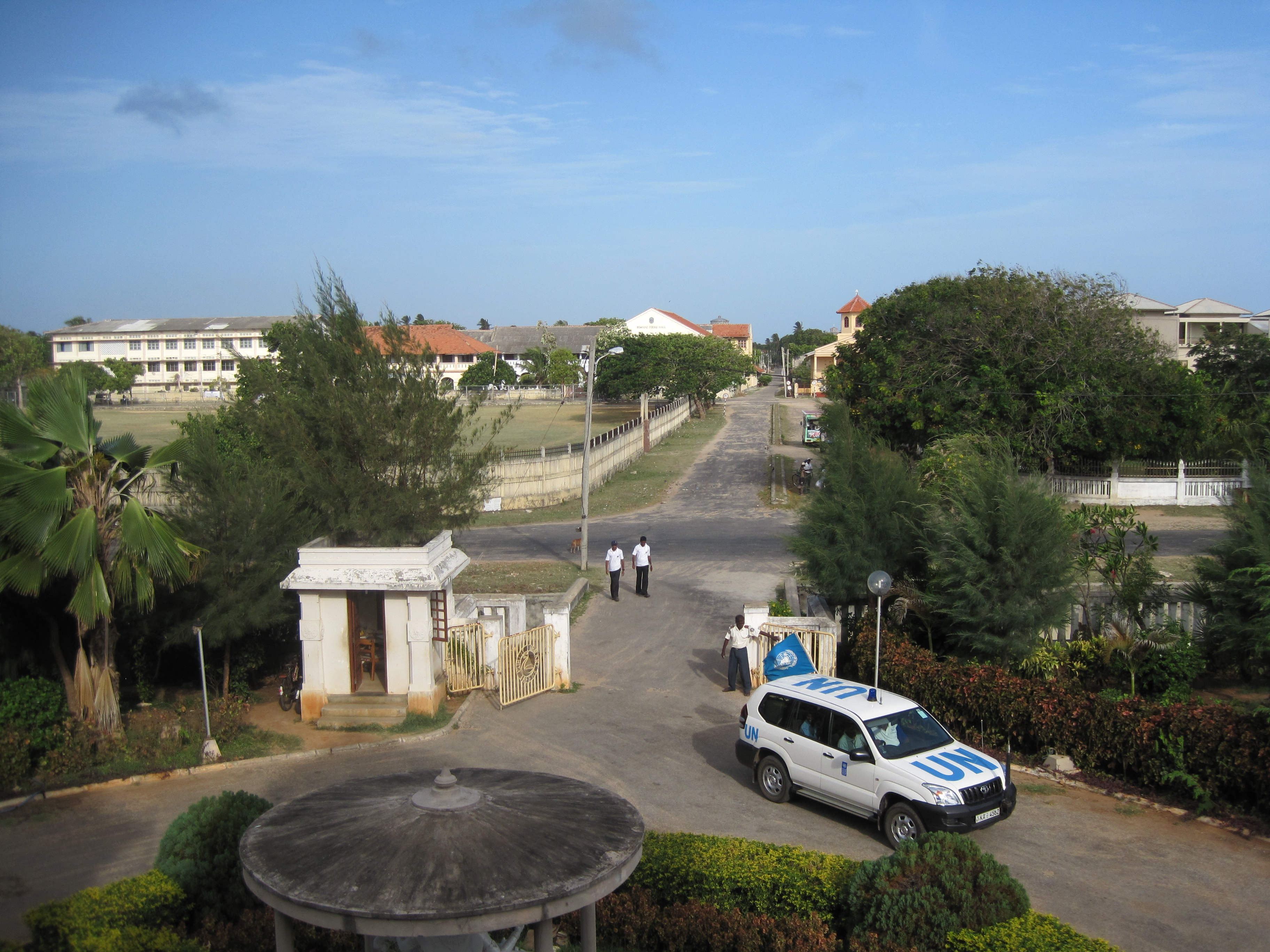 View of the Jaffna city from Public Library roof top